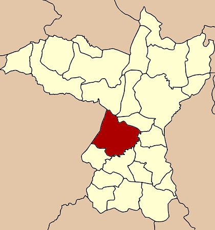 Map of Khon Kaen Province, Thailand, highlighting the district Mancha Khiri (อำเภอมัญจาคีรี)